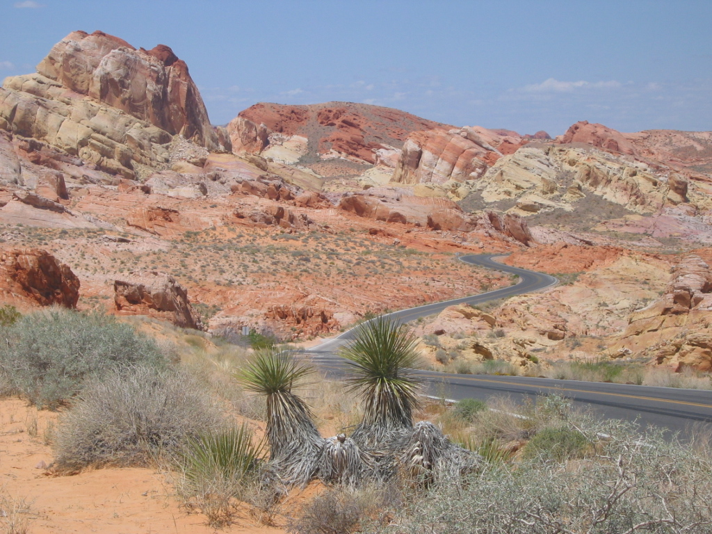 Valley of Fire, Nevada